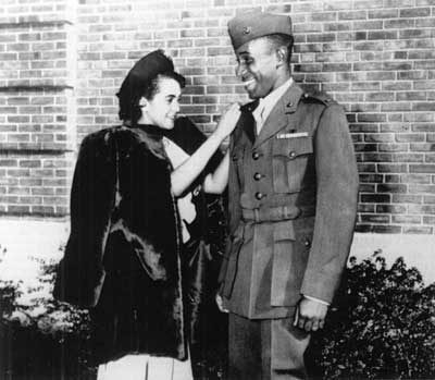 On 10 November 1945, Frederick C. Branch, the first African-American ever commissioned in the Marine Corps, and a veteran of the 51st Defense Battalion, smiles proudly as his wife pins the gold bars of a second lieutenant on his uniform.